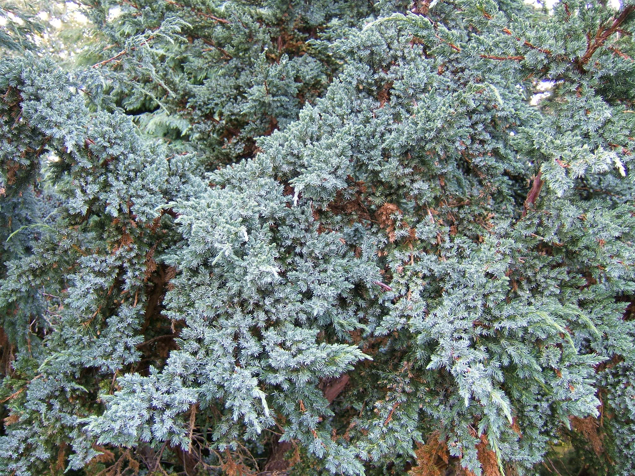 Juniperus squamata 'Meyeri'; cultivated in Newcastle, Northumberland, UK.